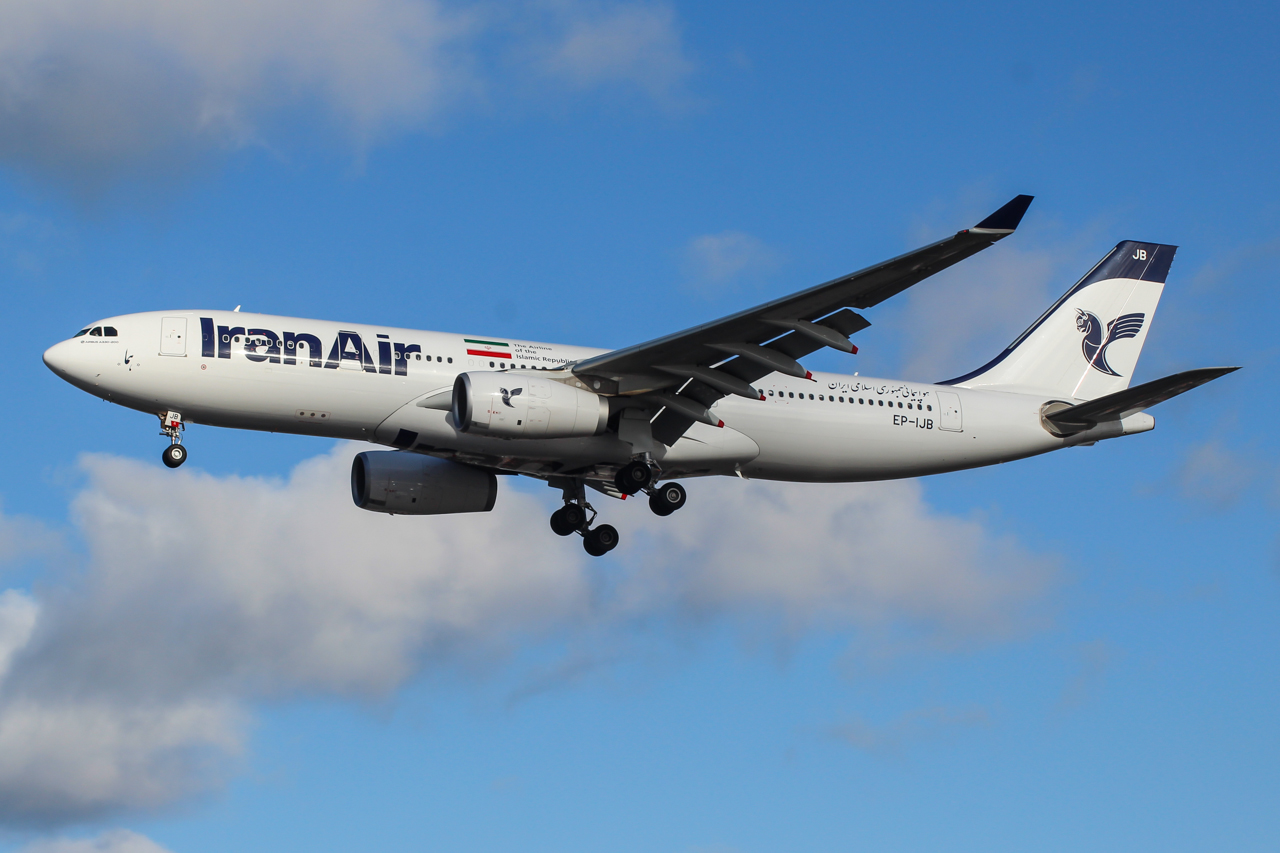 EP-IJB-3